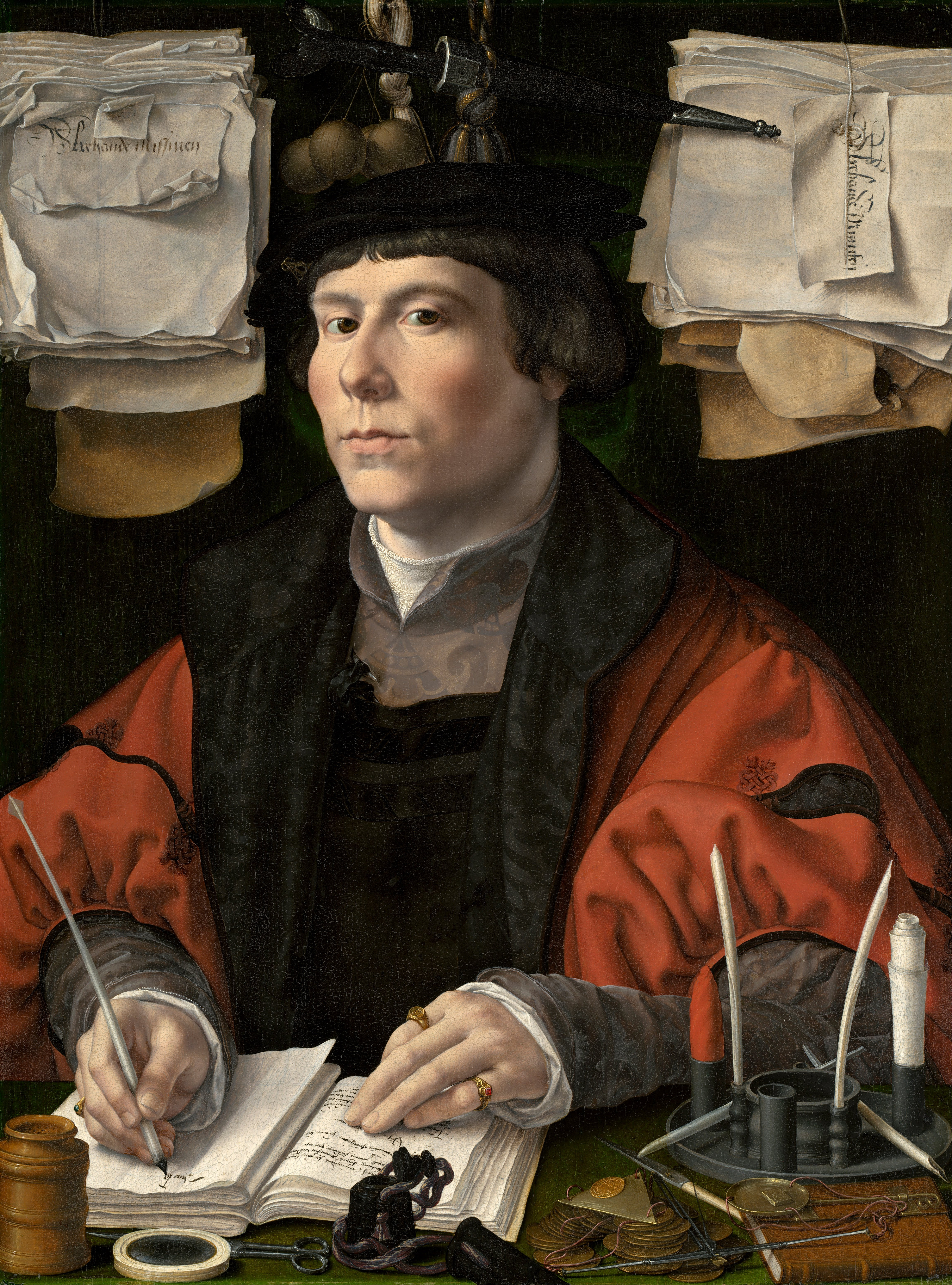 This image is available from the Netherlands Institute for Art Historyunder digital ID 219108. This tag does not indicate the copyright status of the attached work. A normal copyright tag is still required. See Commons:Licensing.